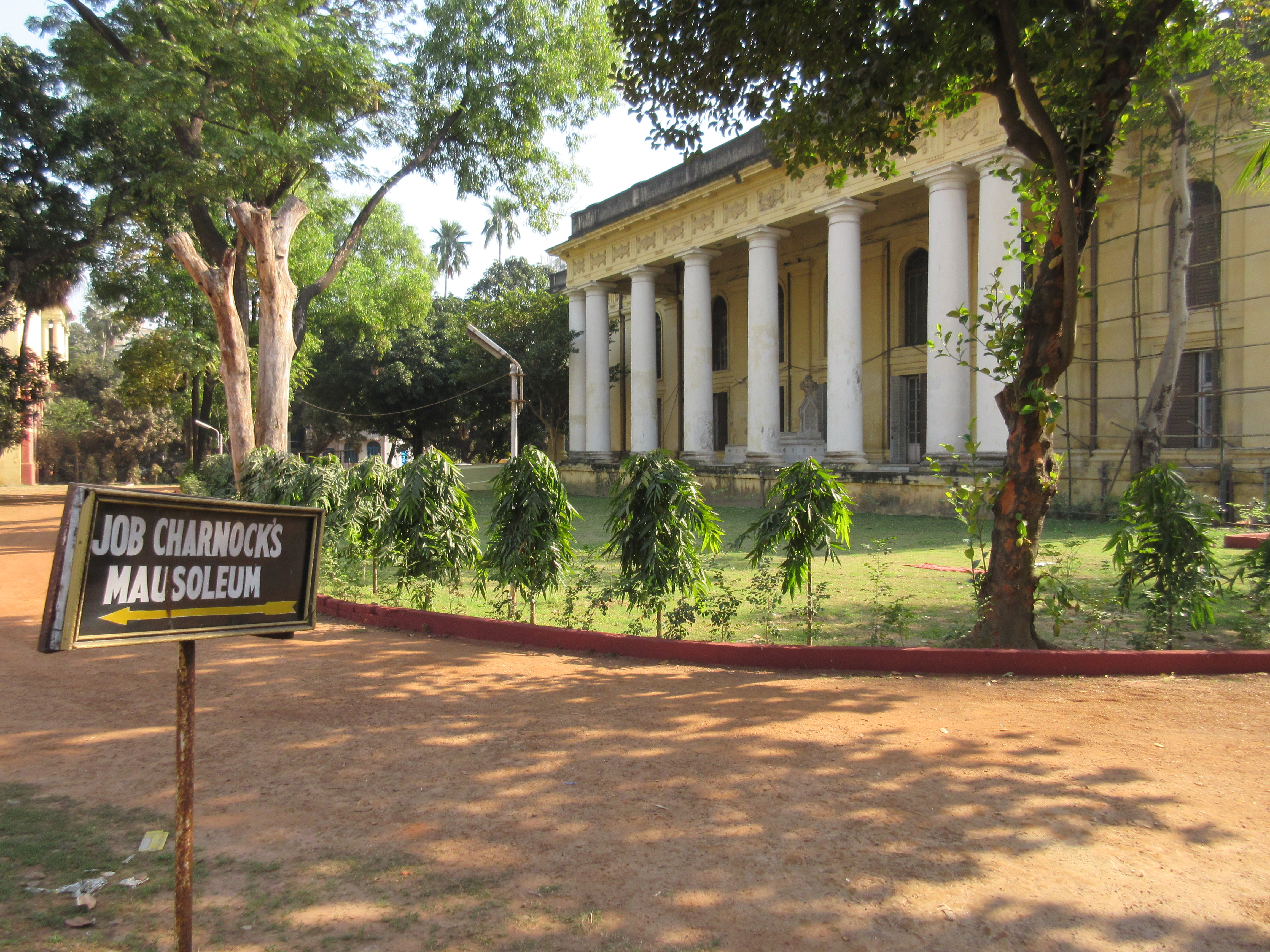 Job Charnock's Mausoleum